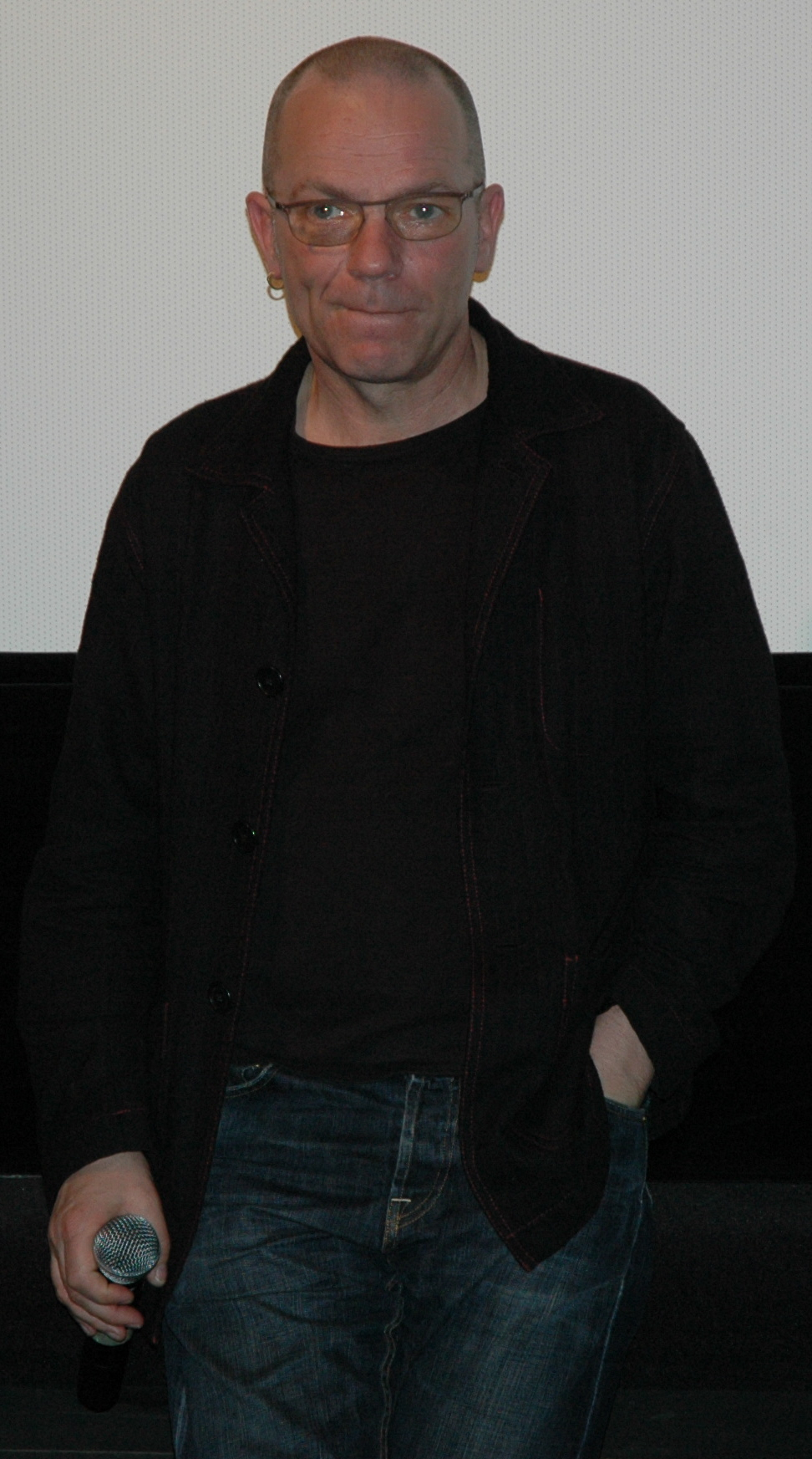 Thomas Heise at the Crossing Europe Film Festival in Linz, Austria